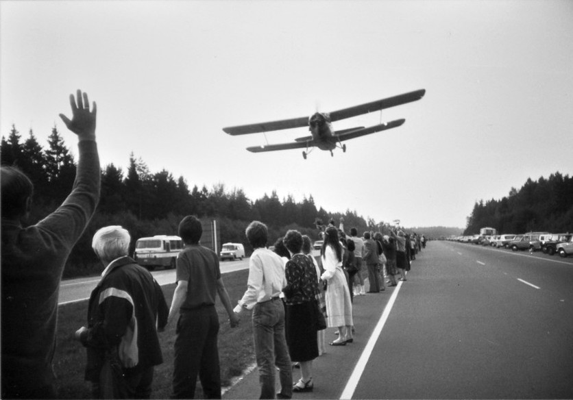 Airplane flying over the Baltic Way (airplanes were used to coordinate the efforts and to photograph and film the human chain).